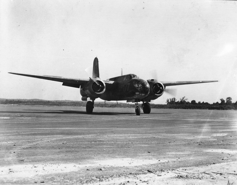 A-20, Will Rogers Field, Oklahoma City, 1943. Subject: aircraft